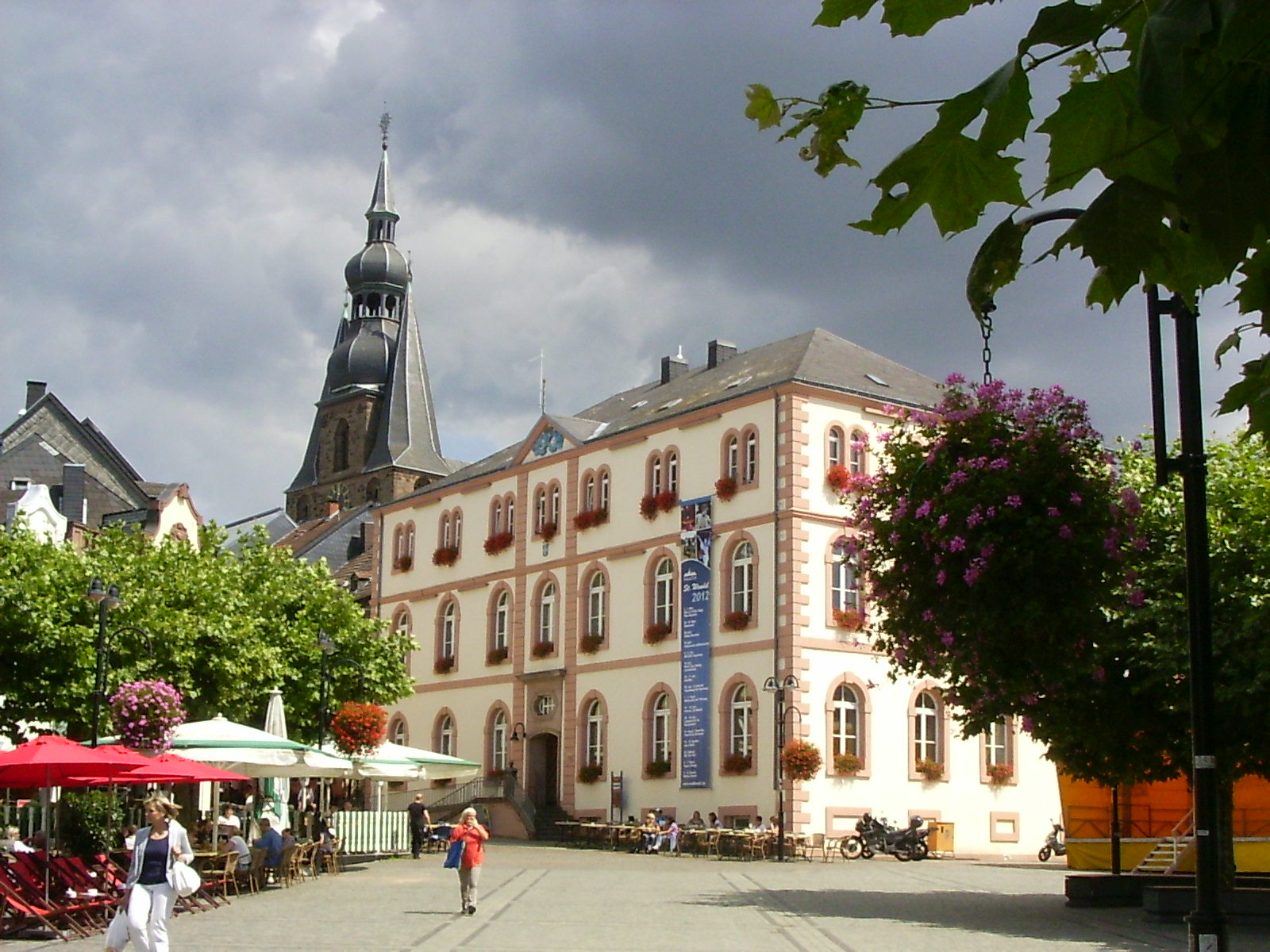 Sankt Wendel, view of Castle Square